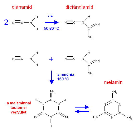 Synthesis of the chemical compound melamine from cyanamide.